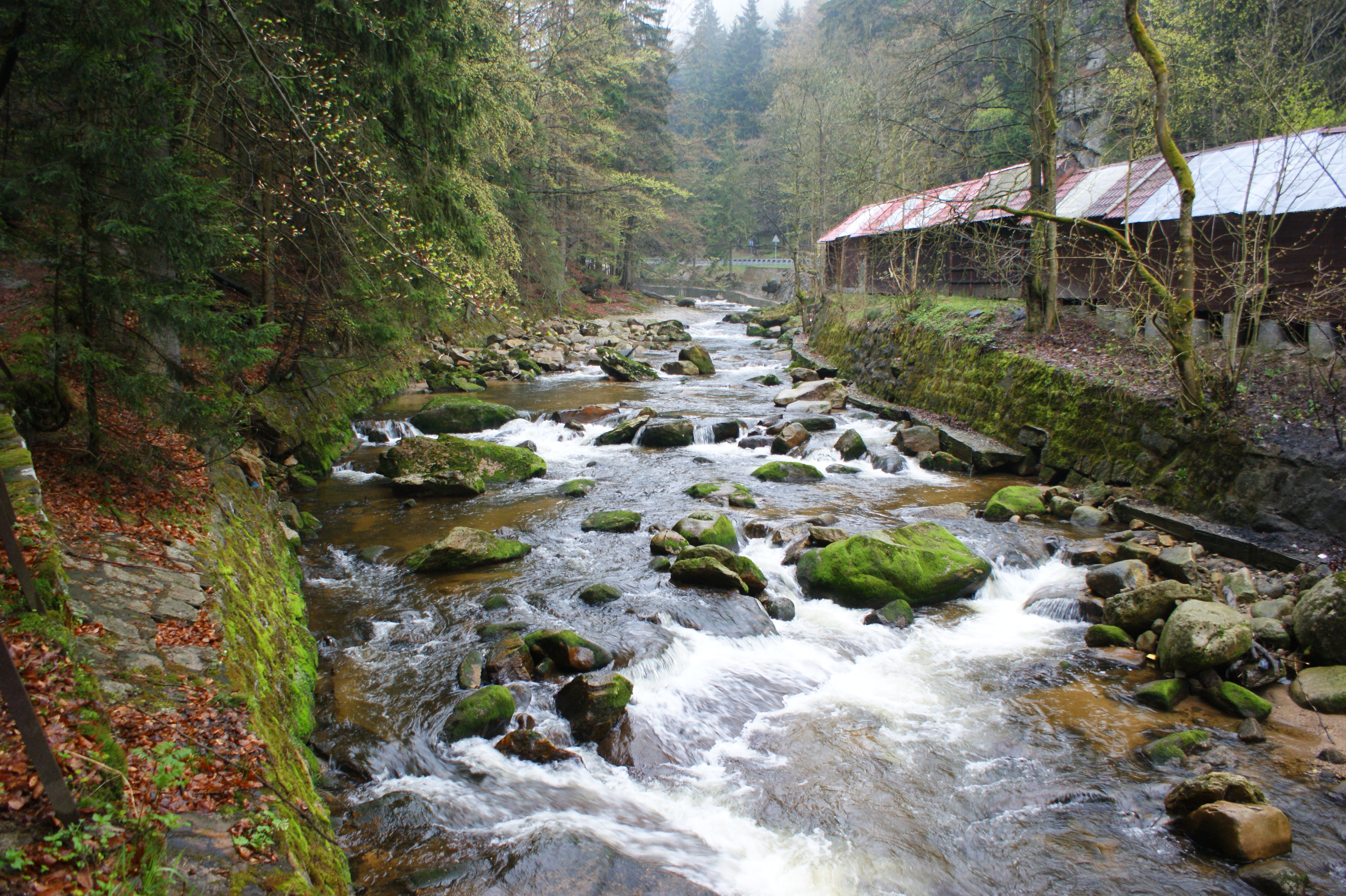 Kamienna River (tributary of Bóbr river) in Szklarska Poręba (SW Poland)